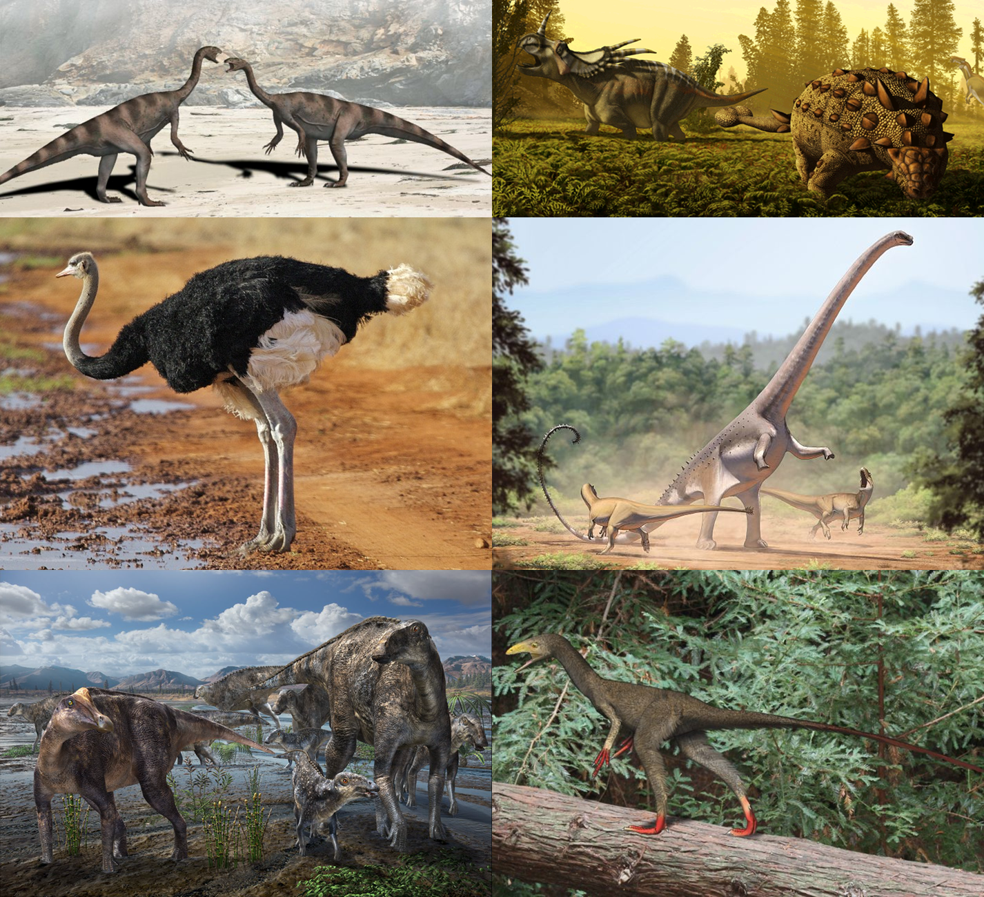 First row: Plateosaurus engelhardti; Styracosaurus albertensis & Scolosaurus cutleri Second row: Struthio camelus; Barosaurus lentus & Allosaurus fragilis Third row: Hadrosauridae; Sinocalliopteryx gigas